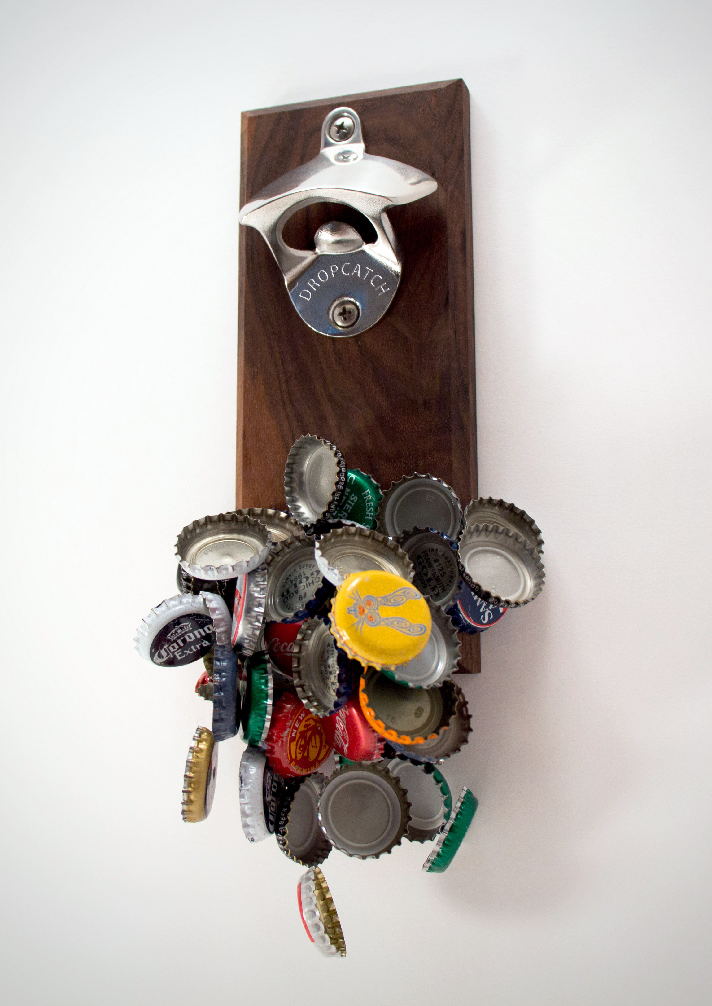 Magnetic Bottle Openers are a method of bottle opening that have less mess and better aesthetic